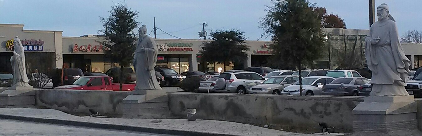 Dallas Chinatown